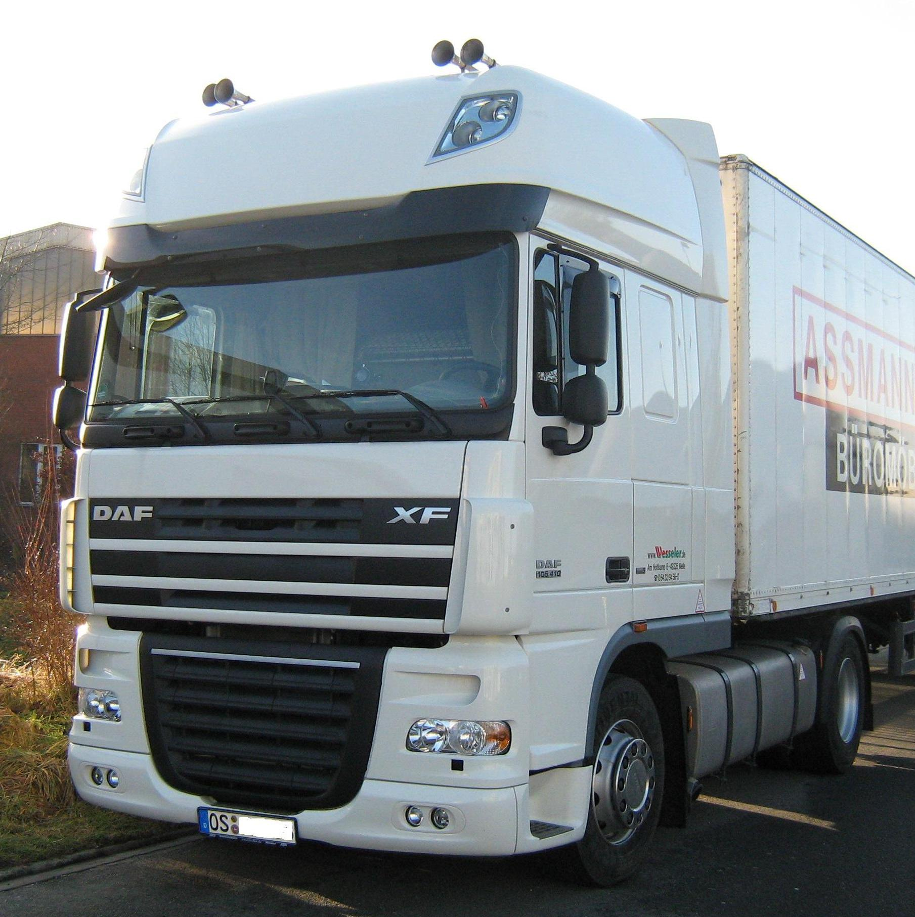 DAF XF 105.410 truck